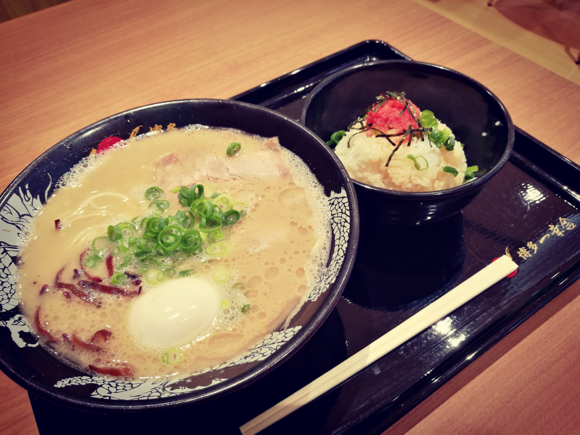 Hakata-style ramen served at Hakata Ikkosha in Nishinomiya